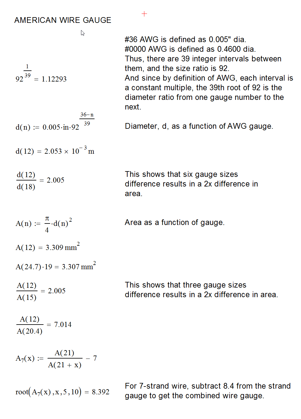 Calculation of diameter and area from AWG gauge